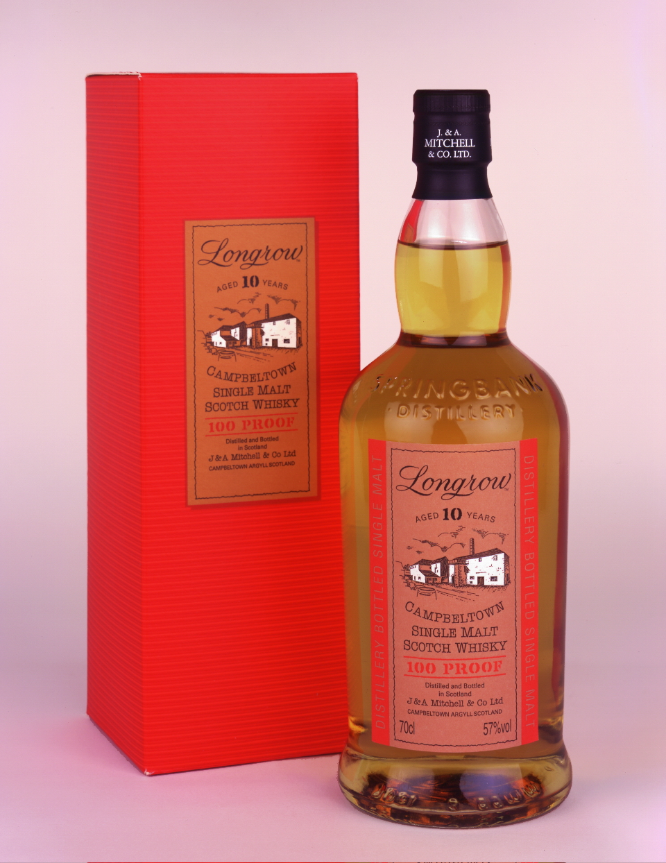 A bottle of Longrow Aged 10 years, 100 proof